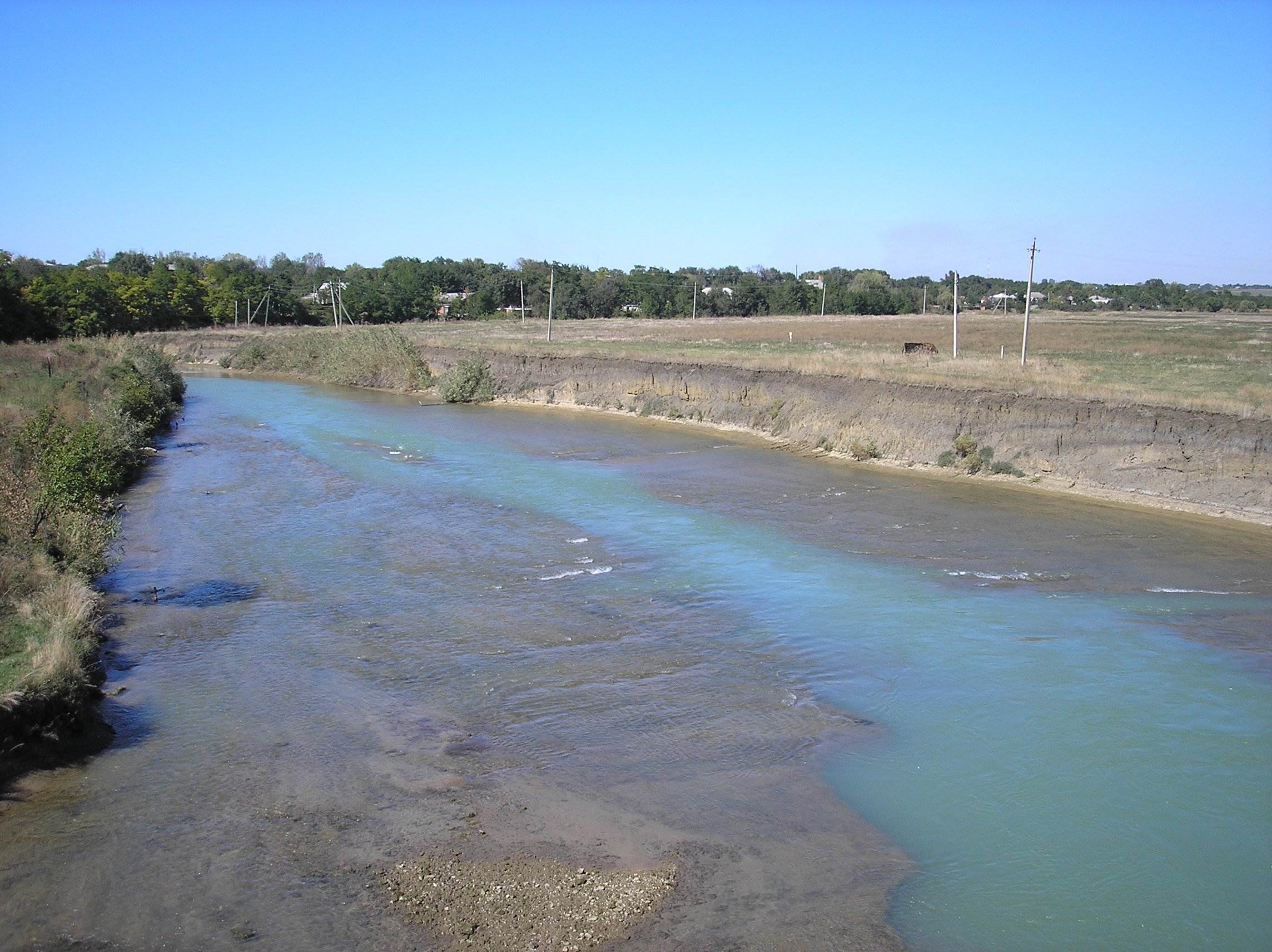 Egorlyk river near Novotroitskaya